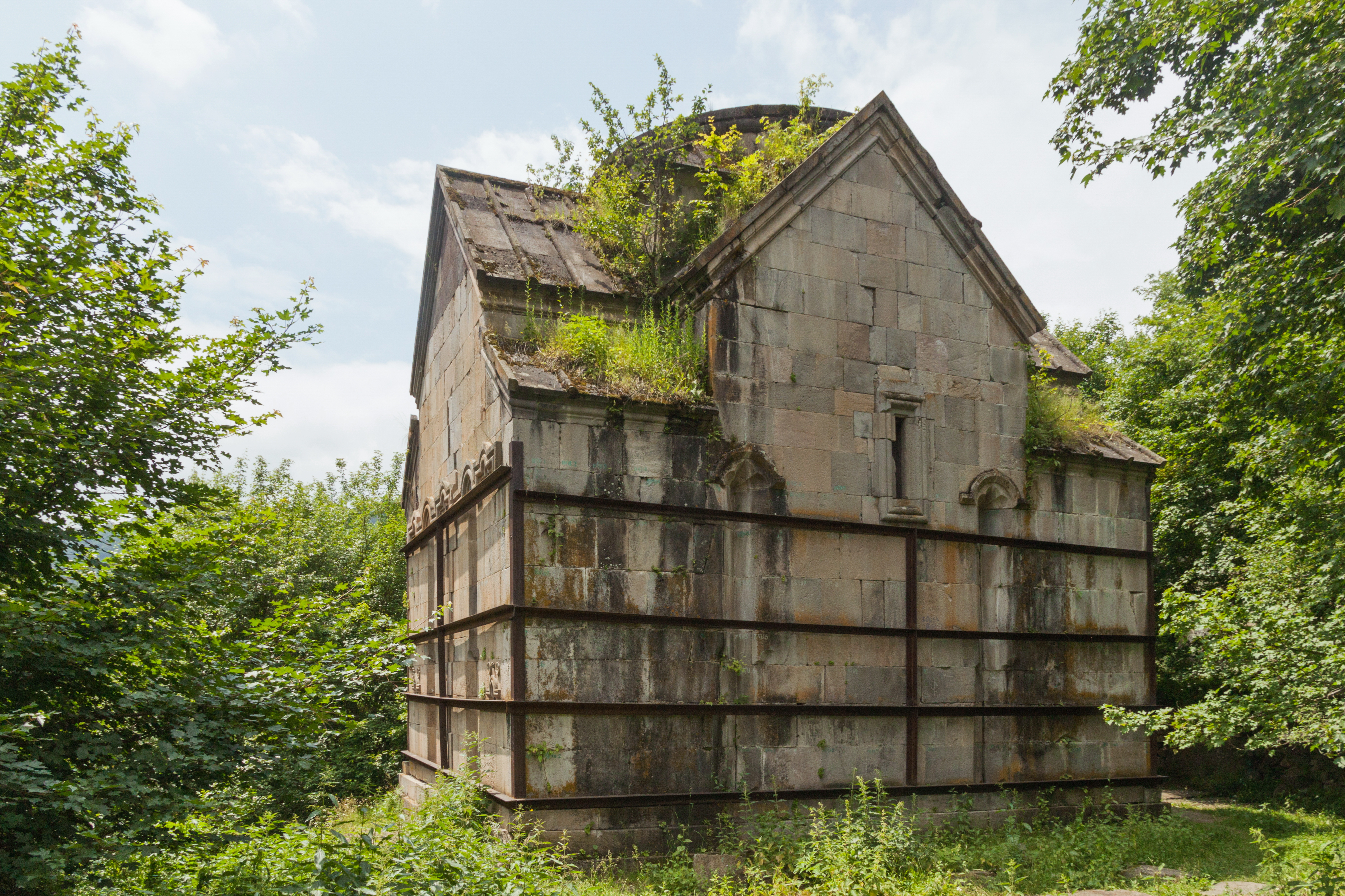 St. Gregory church. Jukhtakvank monastery. Dilijan National Park, Tavush Province, Armenia.